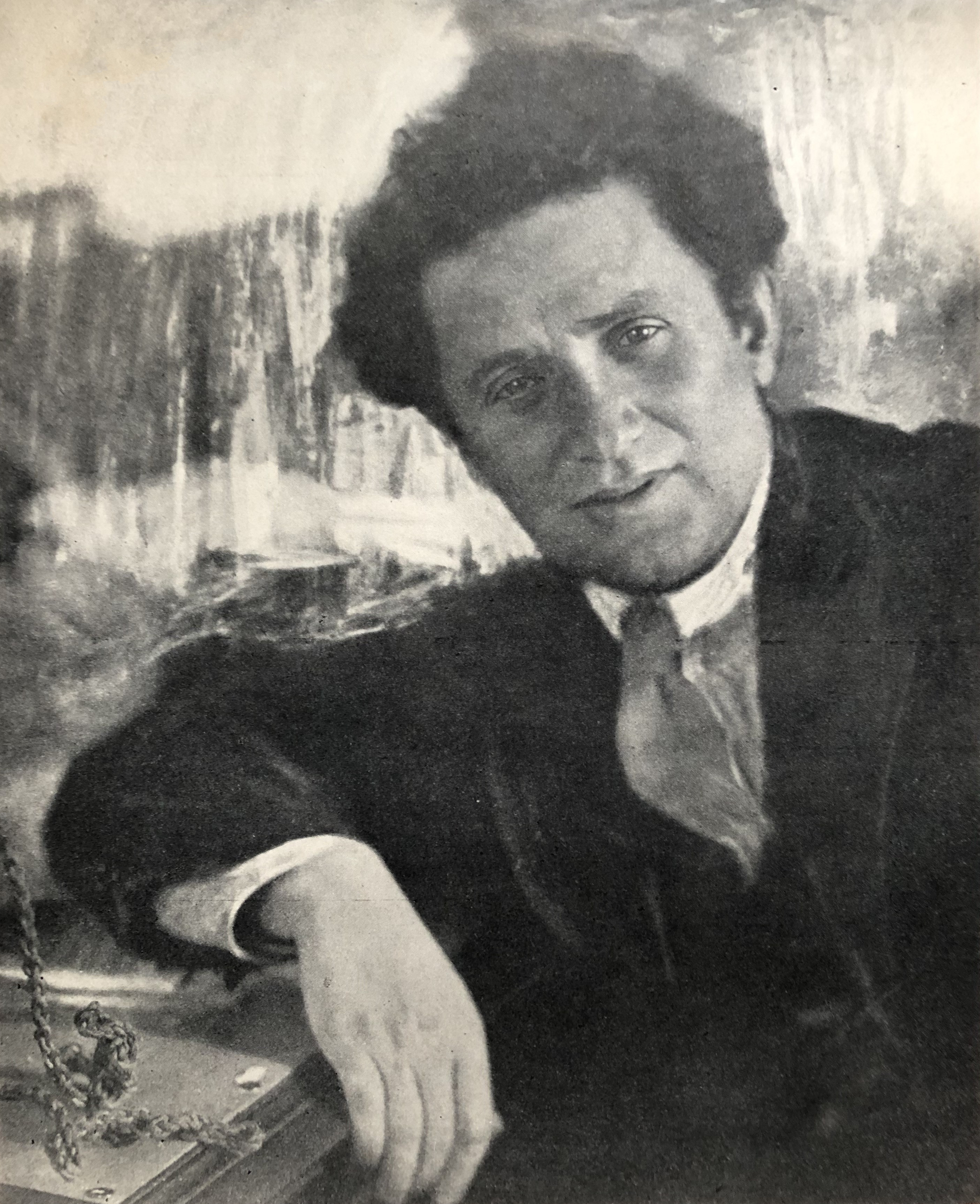 Photo of Grigory Zinoviev in 1920, by the Bulla Studio.